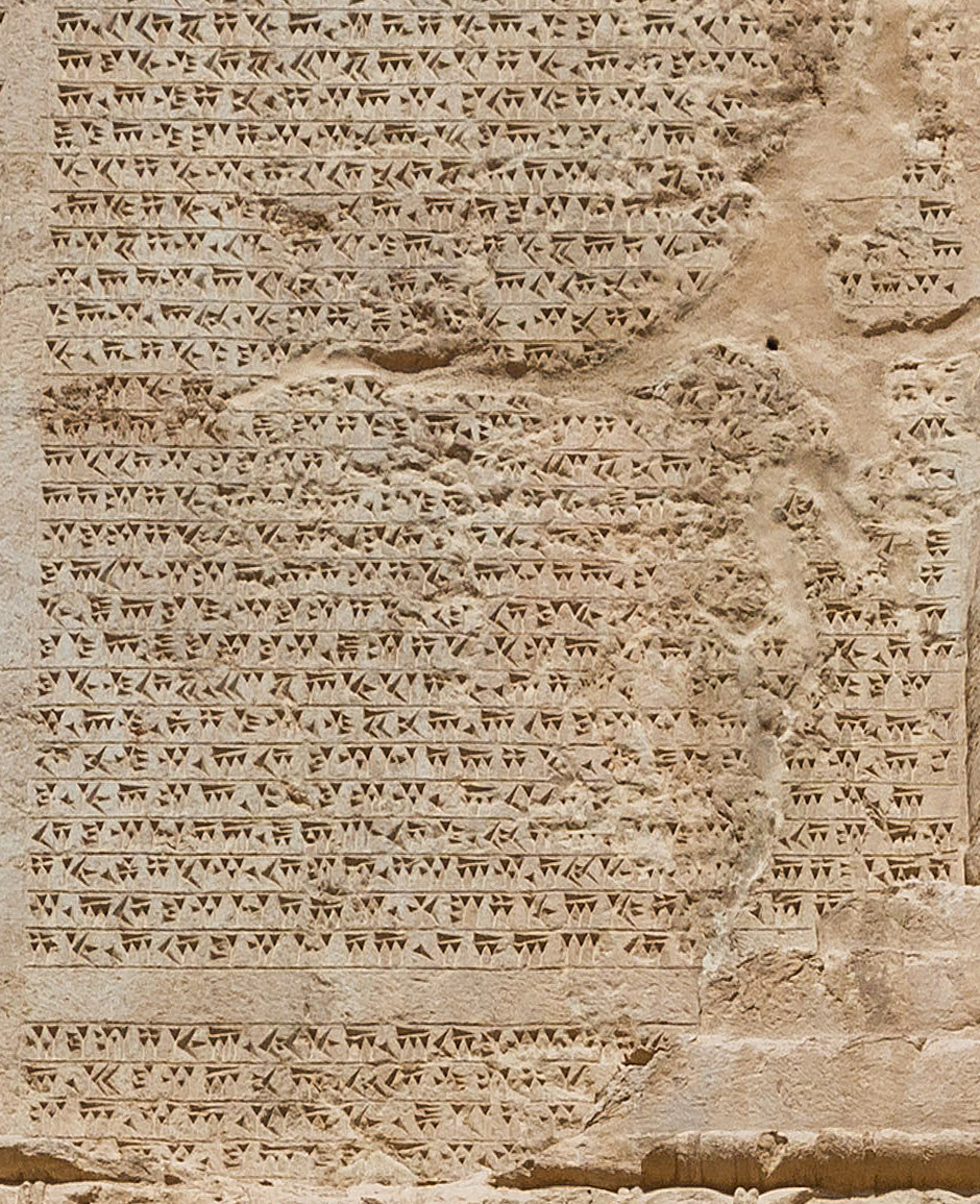 Tomb of Darius I DNa inscription part II